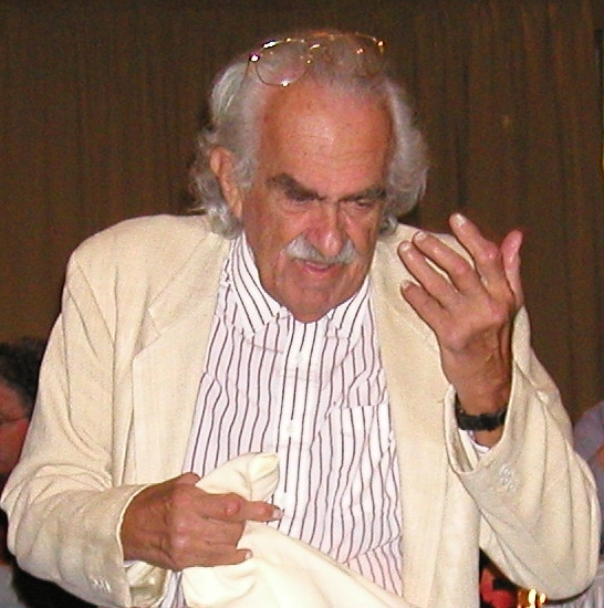 Sydney Meshkov speaking at the Miami 2004 conference banquet on Key Biscayne, FL.